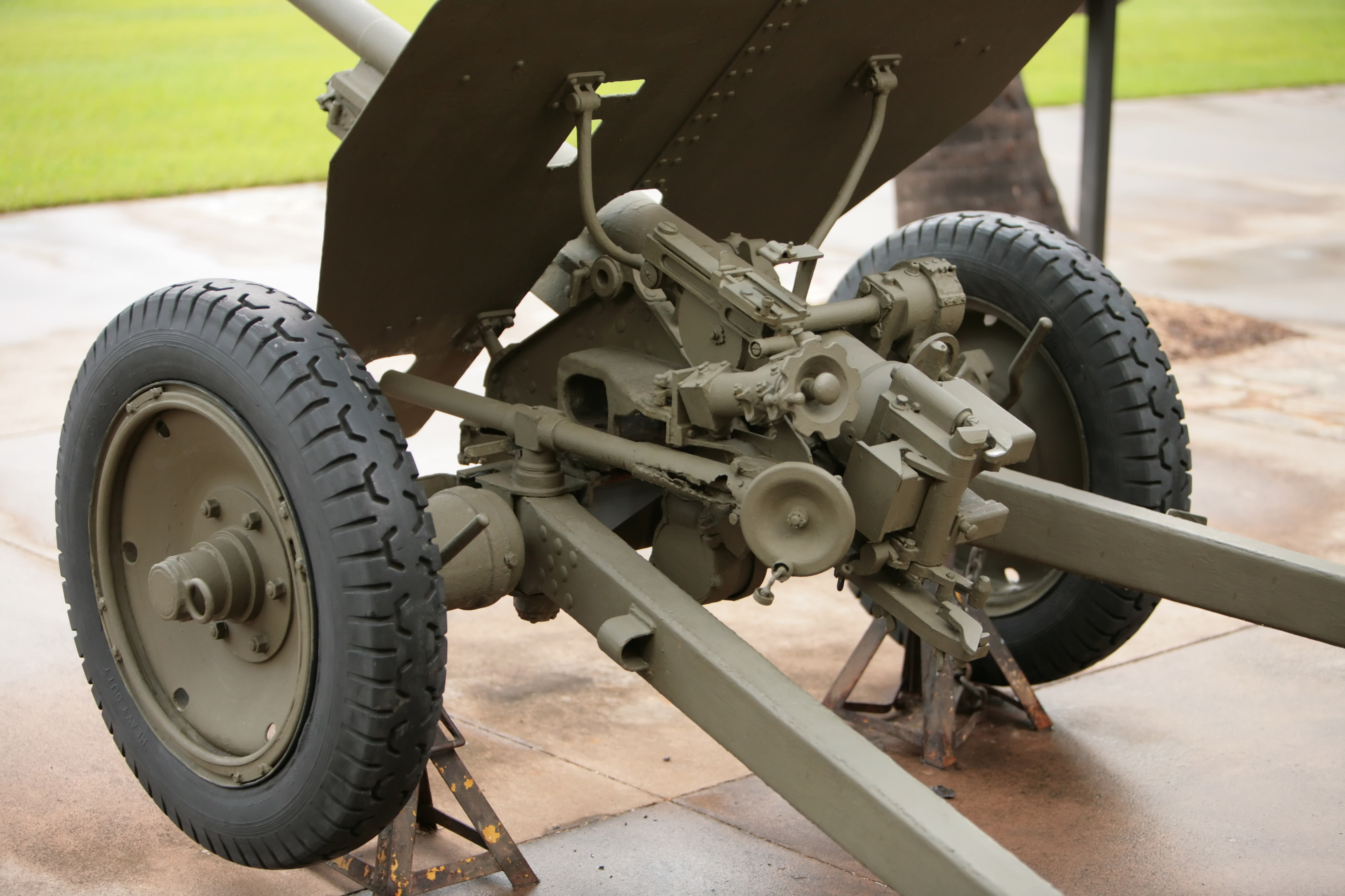 A Japanese World War II-era Type 1 47 mm anti-tank gun at the U.S. Army Museum in Honolulu, HI. Seen from the rear left.